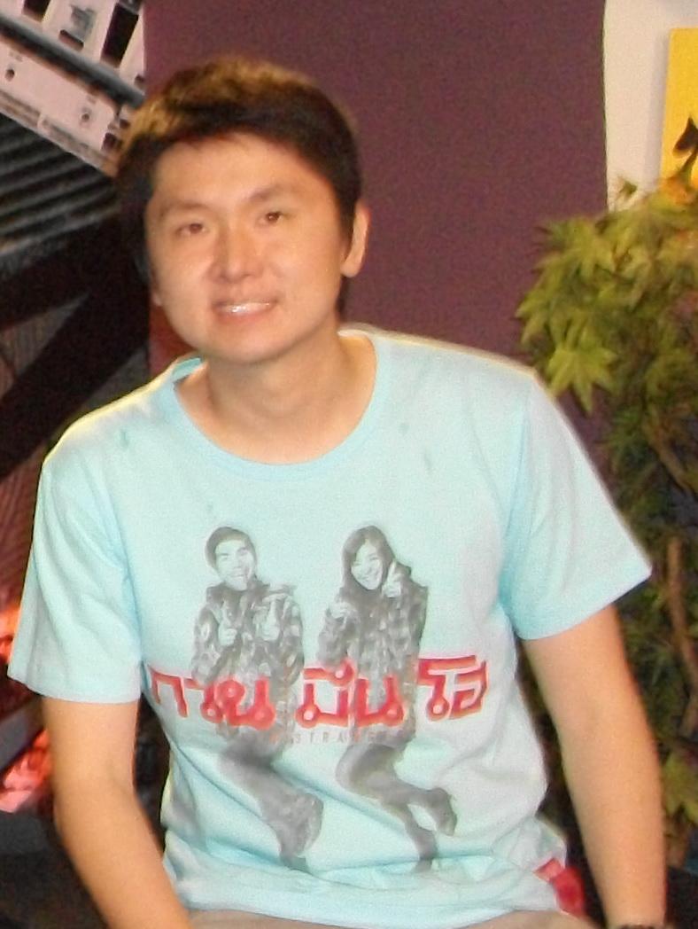 Banjong Pisanthanakun at MTV Onair Live.